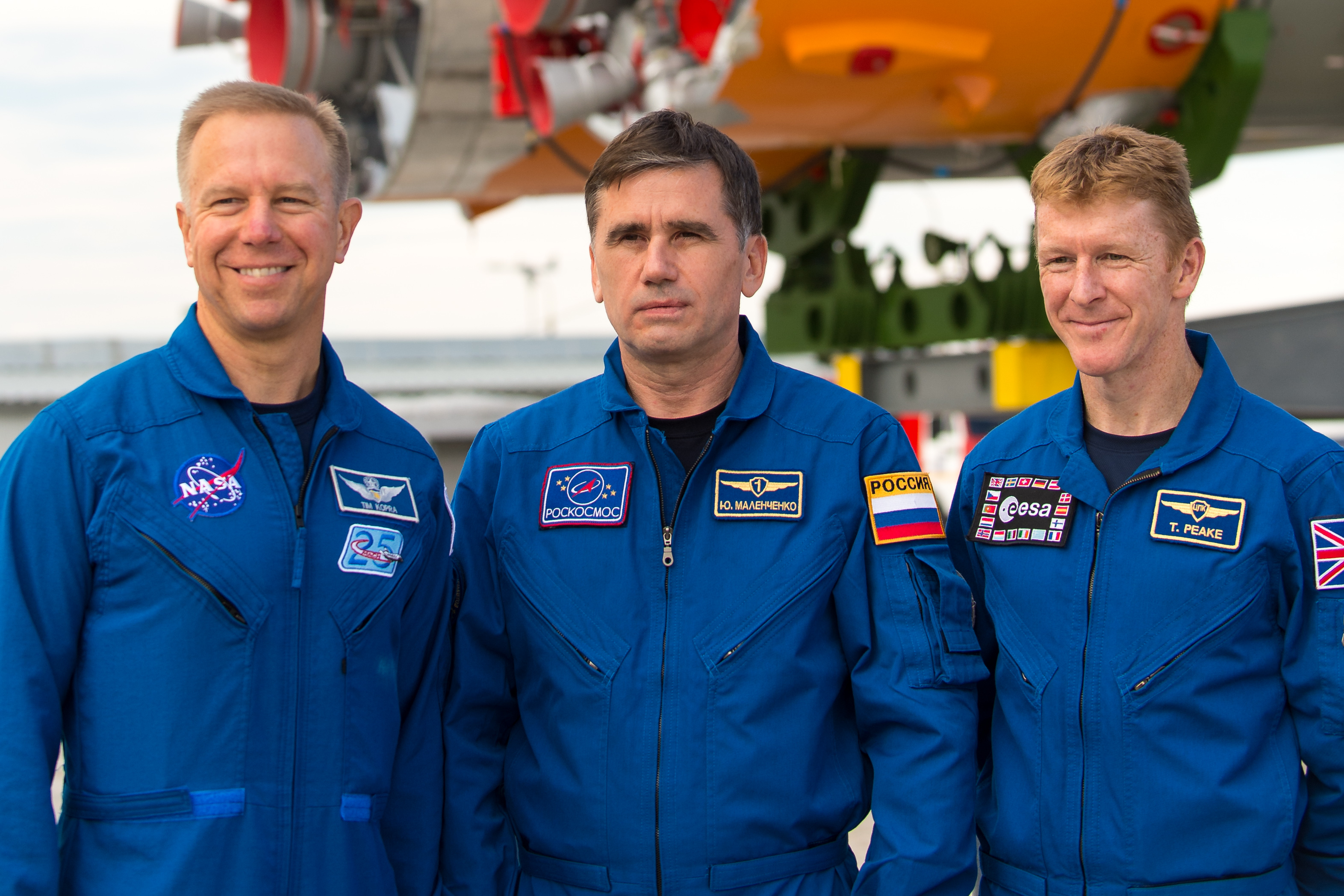 Expedition 44 backup crew members Timothy Kopra of NASA, left; Yuri Malenchenko of the Russian Federal Space Agency (Roscosmos), center; and Timothy Peake of the European Space Agency (ESA), right, pose for a photo as the Soyuz TMA-17M spacecraft is rolled to the launch pad by train on Monday, July 20, 2015 at the Baikonur Cosmodrome in Kazakhstan. Launch of the Soyuz rocket is scheduled for July 23 and will carry Expedition 44 Soyuz Commander Oleg Kononenko of the Russian Federal Space Agency (Roscosmos), Flight Engineer Kjell Lindgren of NASA, and Flight Engineer Kimiya Yui of the Japan Aerospace Exploration Agency (JAXA) into orbit to begin their five month mission on the International Space Station.